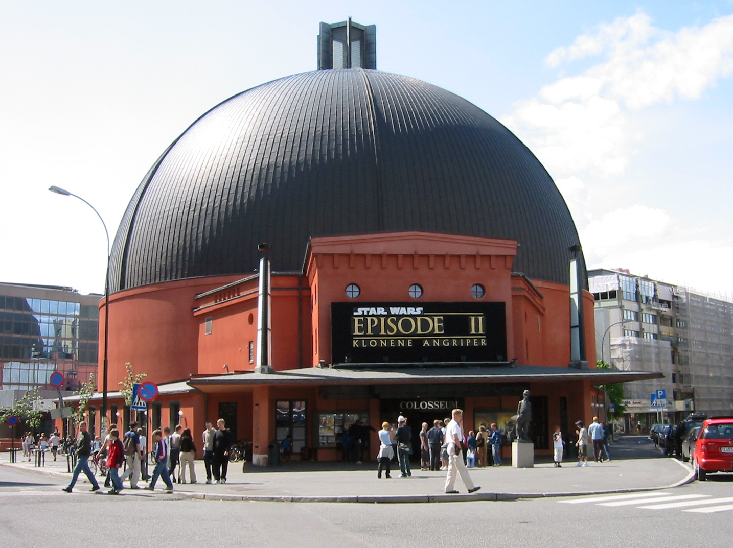 Colosseum cinema, Fridtjof Nansens vei 8, Oslo, Norway. Erected 1928; architects Jacob Hansen and Gerhard Iversen. Rebuilt after fire 1964; architect: Sverre Fehn.